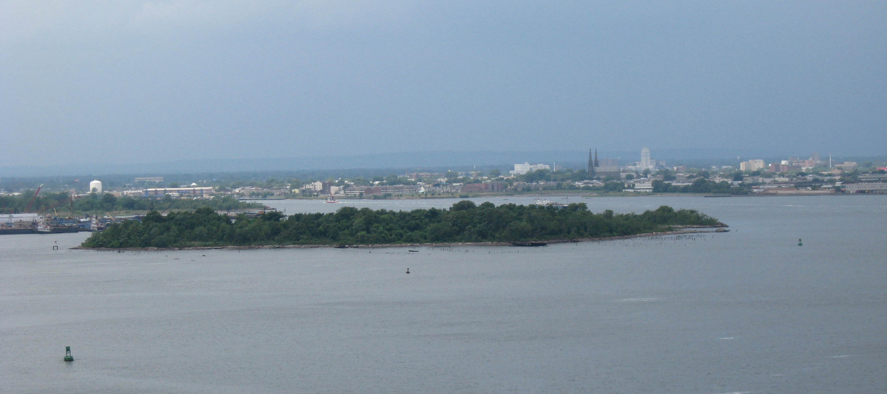 Looking west at Shooters Island on a cloudy afternoon of June 2008 from Bayonne Bridge. Entrance of Arthur Kill at far left.